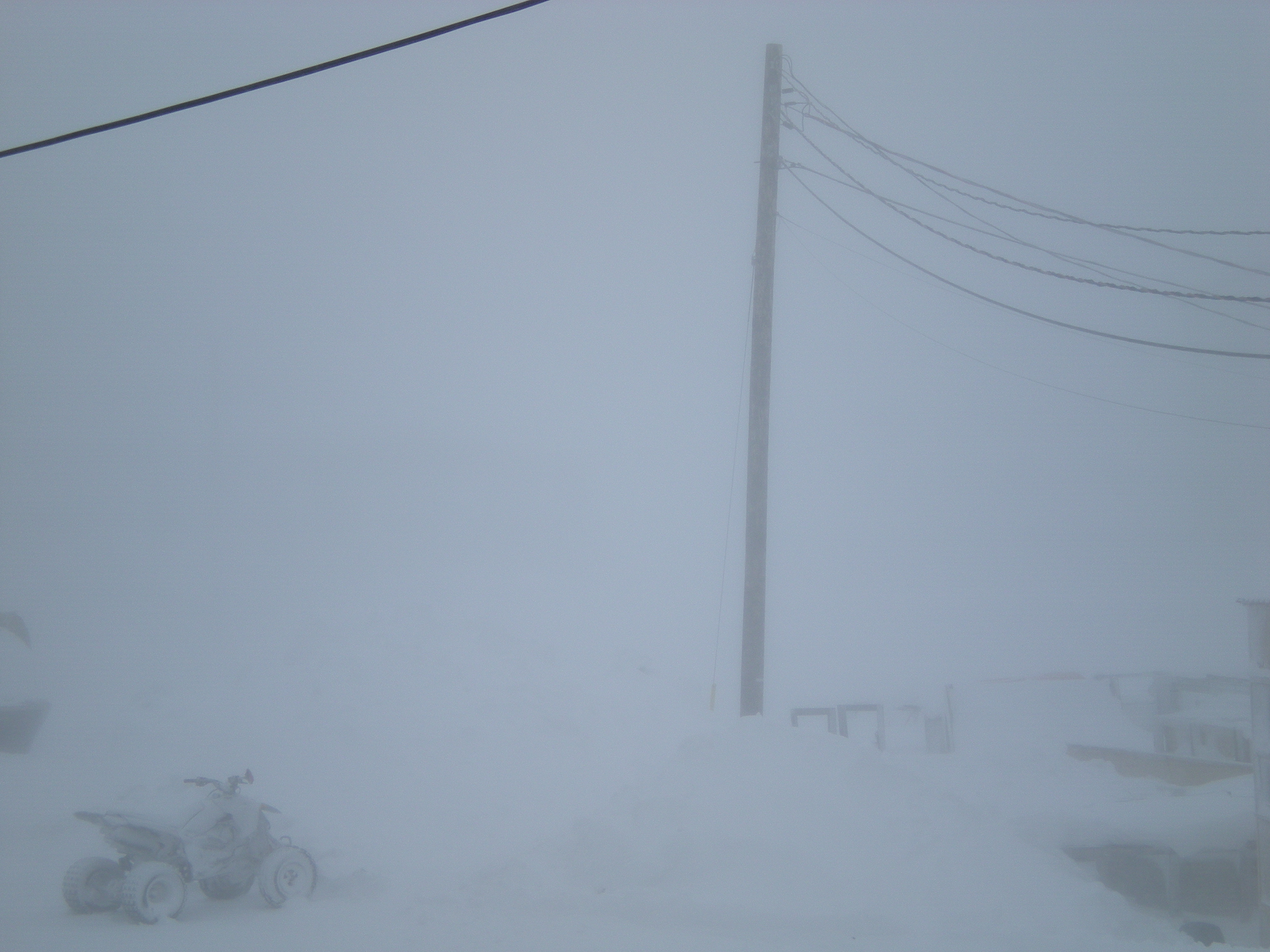 Blizzard conditions at 40 kts.